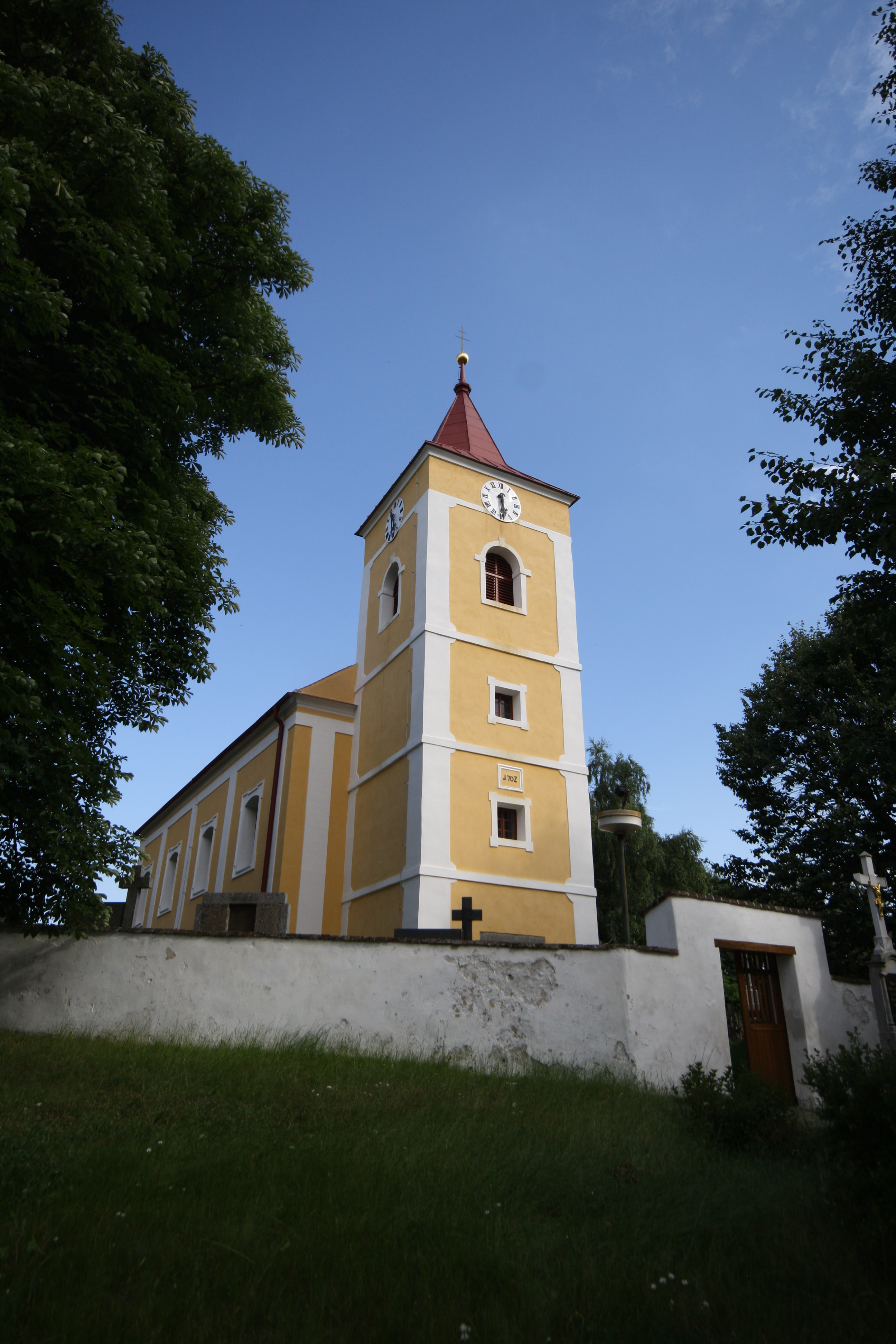 Overview of Church of Saint James the Greater in Naloučany, Třebíč District.